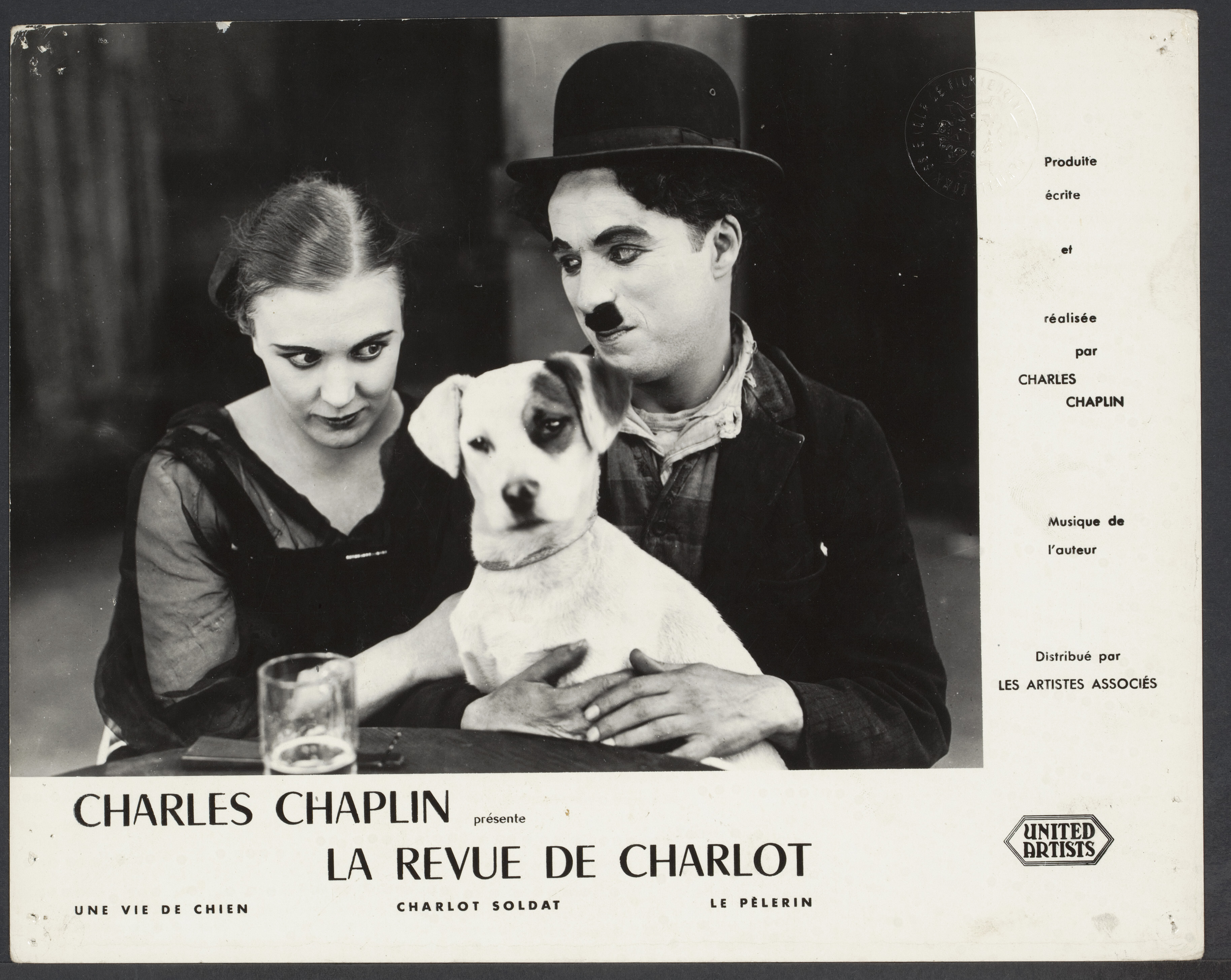 Film still A Dog's Life (1918) with Edna Purviance and Charlie Chaplin Repro: United Artists (US)